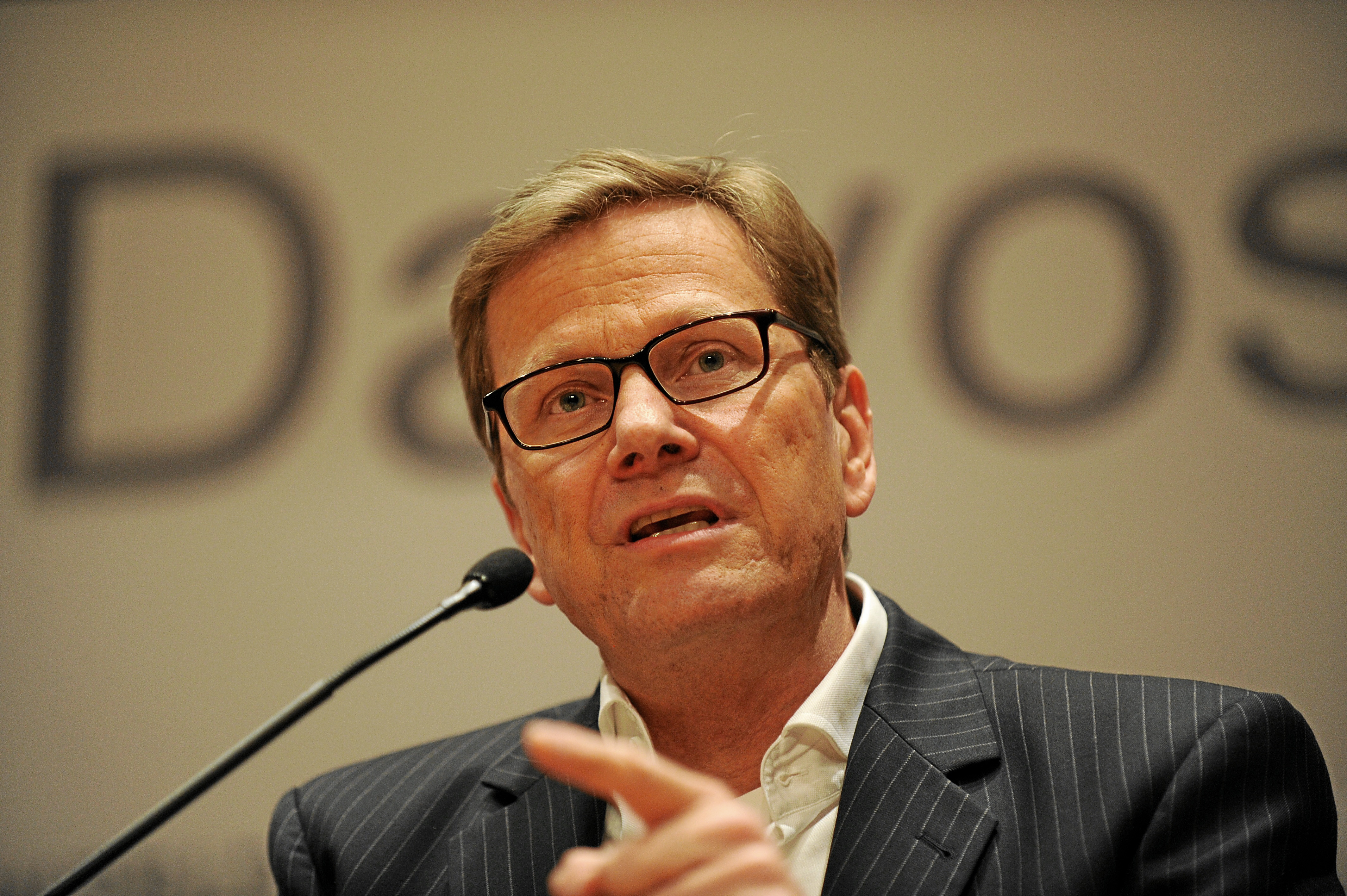 DAVOS/SWITZERLAND, 25JAN13 - Guido Westerwelle, Federal Minister of Foreign Affairs of Germany speaks during the session 'Open forum: Eurozone - Solidarity or Domination?' at the Annual Meeting 2013 of the World Economic Forum at the Swiss alpine high school in Davos, Switzerland, January 25, 2013. . . Copyright by World Economic Forum. . Michael Wuertenberg